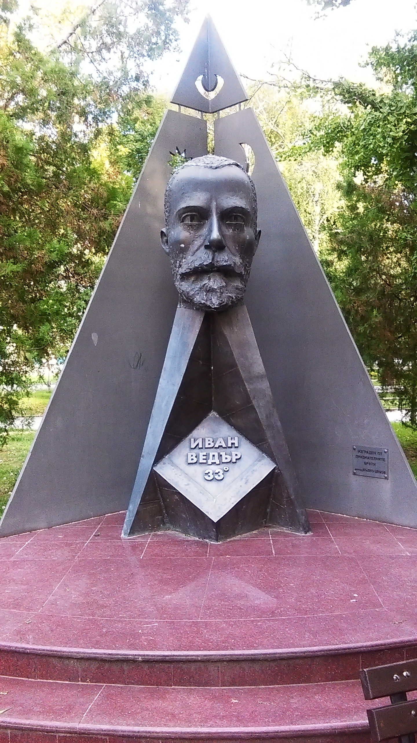 Memorial of Ivan Vedar in his hometown, Razgrad